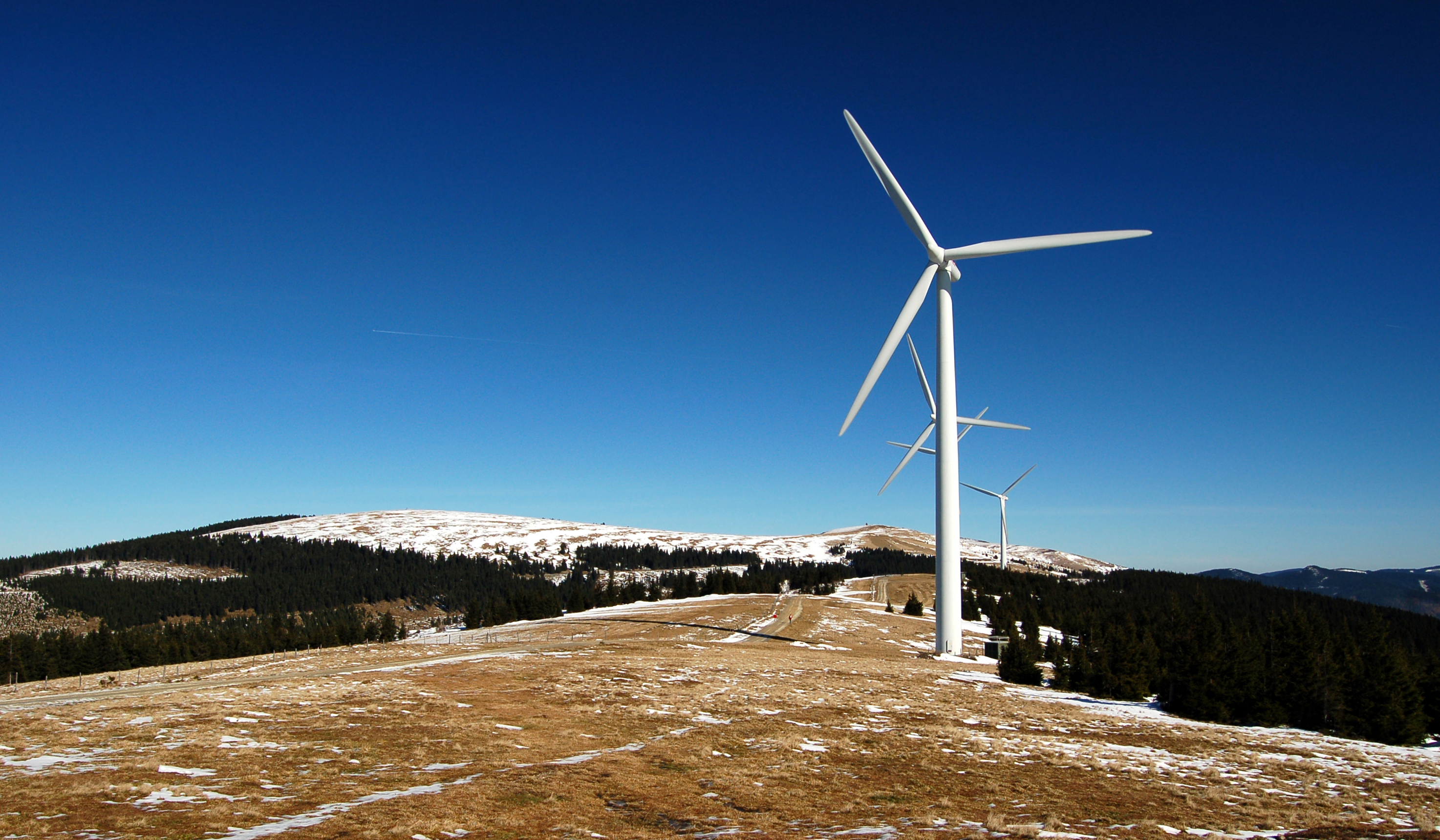 Amundsenhöhe (1666m, left) and Pretul (1656m, left behind the wind turbine)